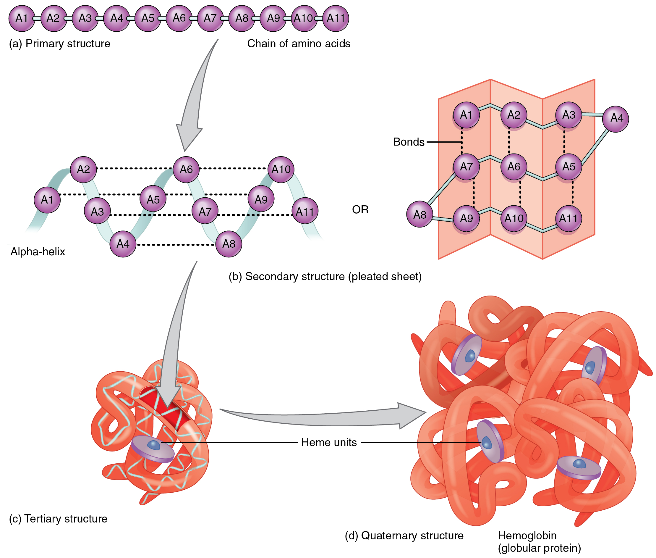 Caption:(a) The primary structure is the sequence of amino acids that make up the polypeptide chain. (b) The secondary structure, which can take the form of an alpha-helix or a beta-pleated sheet, is maintained by hydrogen bonds between amino acids in different regions of the original polypeptide strand. (c) The tertiary structure occurs as a result of further folding and bonding of the secondary structure. (d) The quaternary structure occurs as a result of interactions between two or more tertiary subunits. The example shown here is hemoglobin, a protein in red blood cells which transports oxygen to body tissues. URL